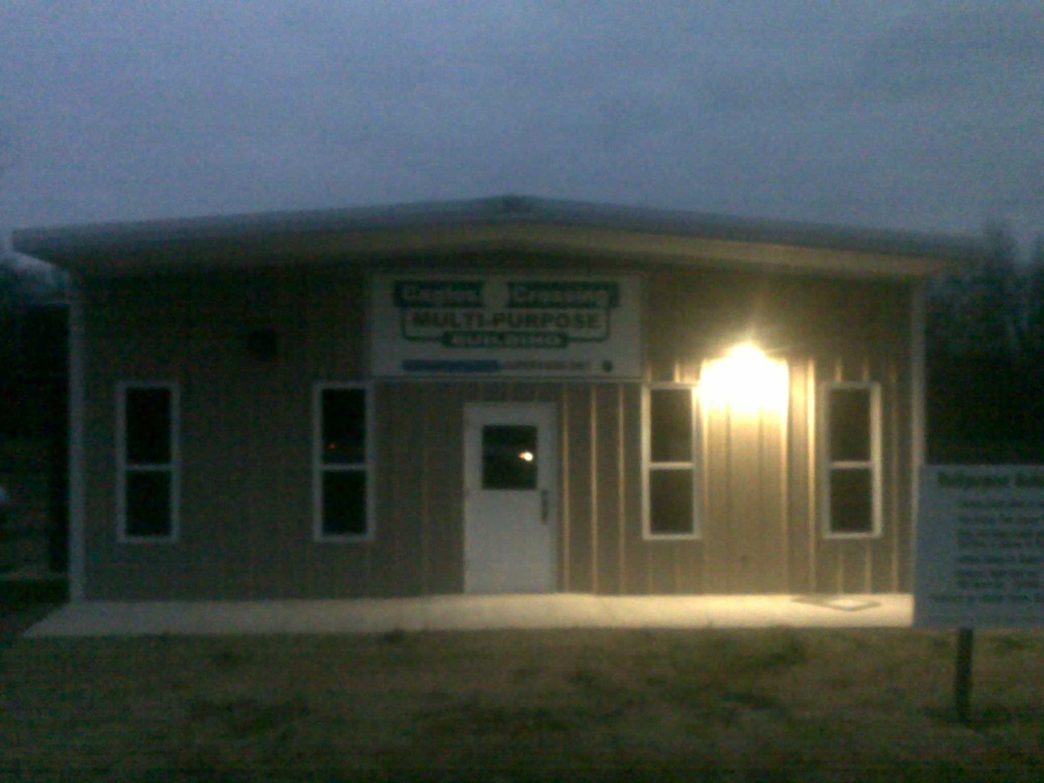 Cagles Crossing Community Center on Dog Walk Road in Coahoma County